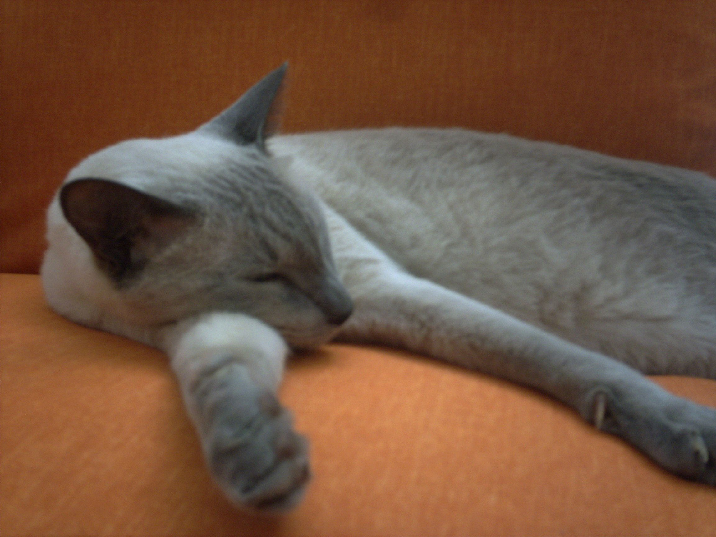 Image title: Blue-point cat Image from Public domain images website